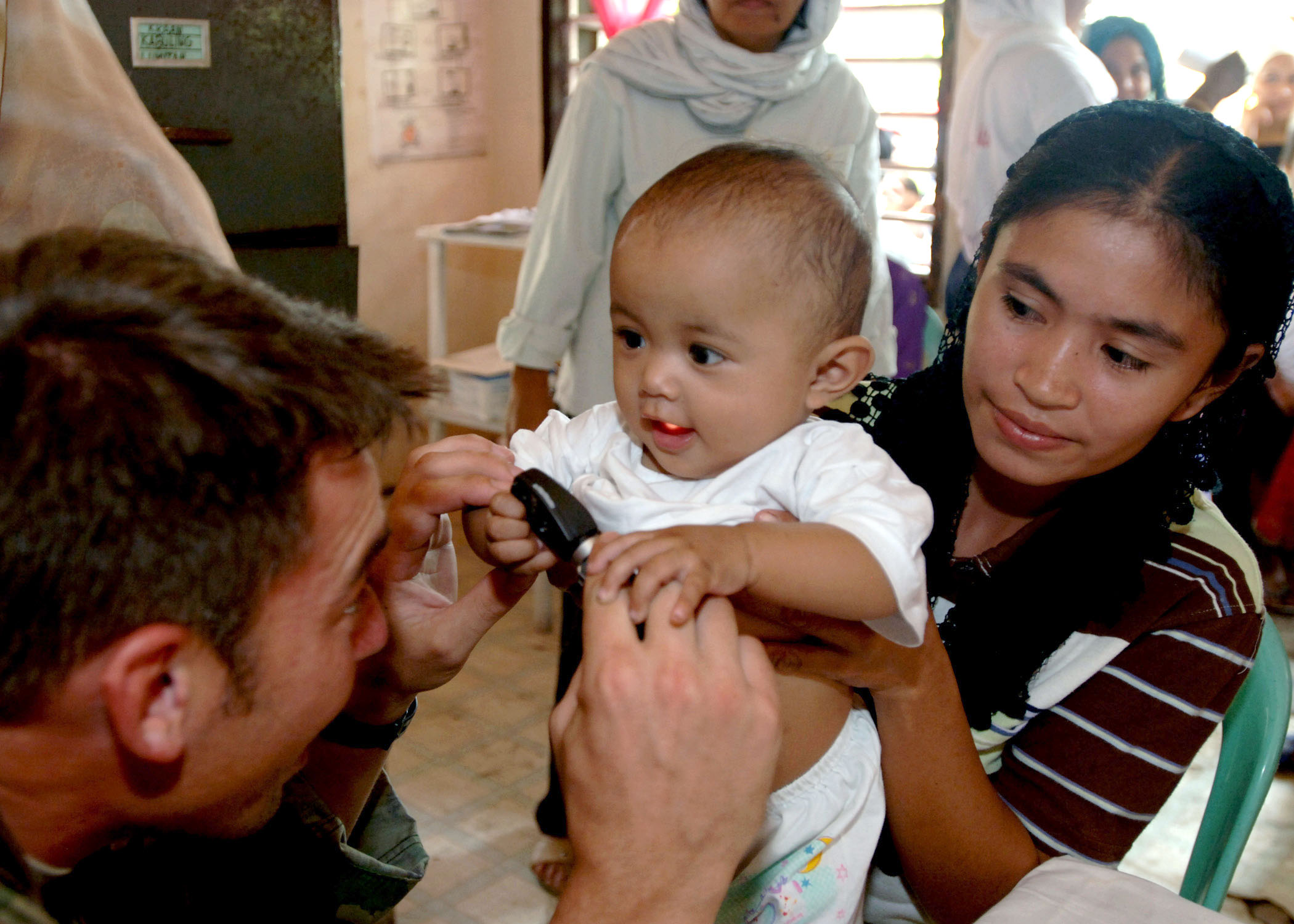 U.S. Army Sgt. 1st Class Brandon Glaser, from 2nd Battalion, 1st Special Forces Group, Joint Special Operations Task Force, Philippines (JSOTF-P), examines a baby boy Sept. 9, 2007, during a medical civic action project in the village of Malisbeng, Republic of the Philippines. JSOTF-P is supporting the AFP in their war on terror efforts and humanitarian missions in their county.